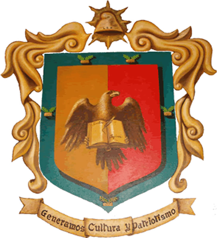 flag of Jiquilpan